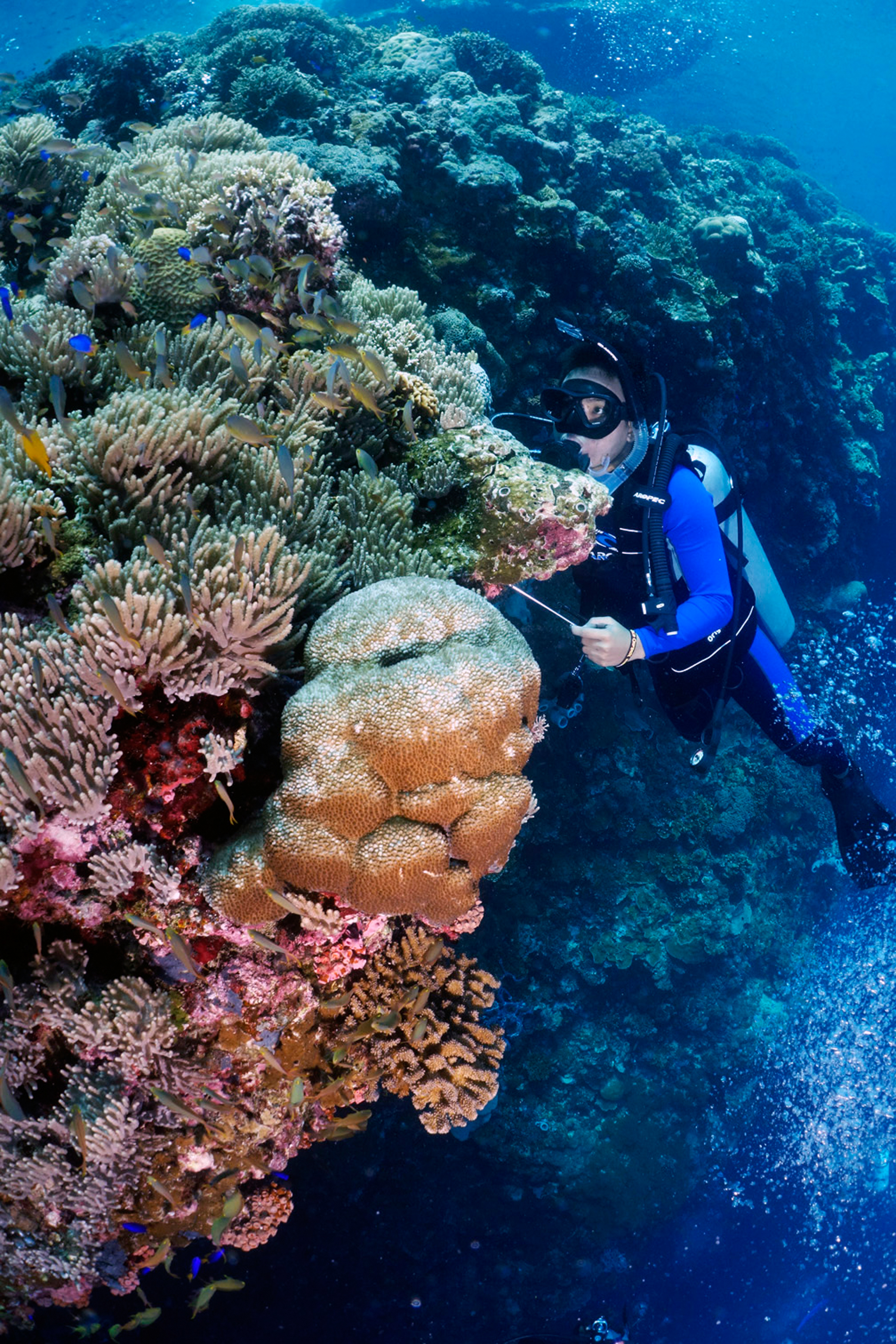 Outside Cathedral cave of Pescador Island